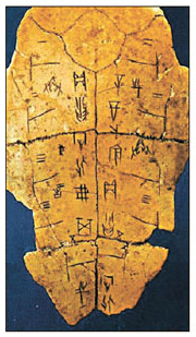 shell and bone character